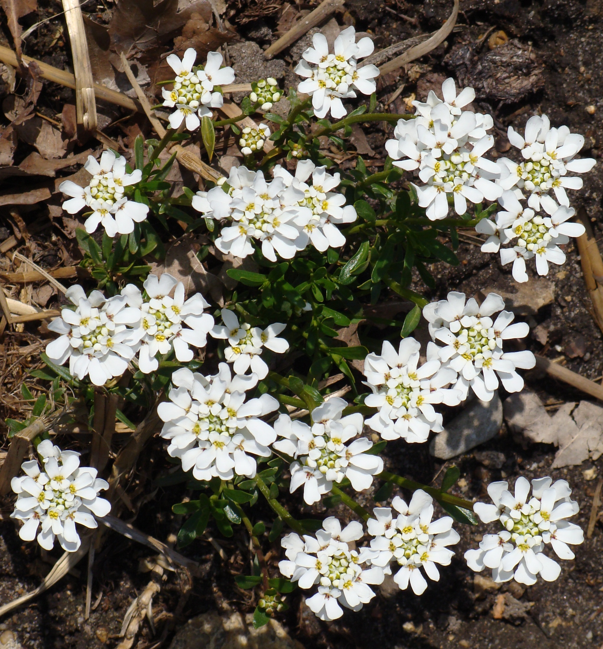 a whole plant of iberis sempervirens L., cultivar